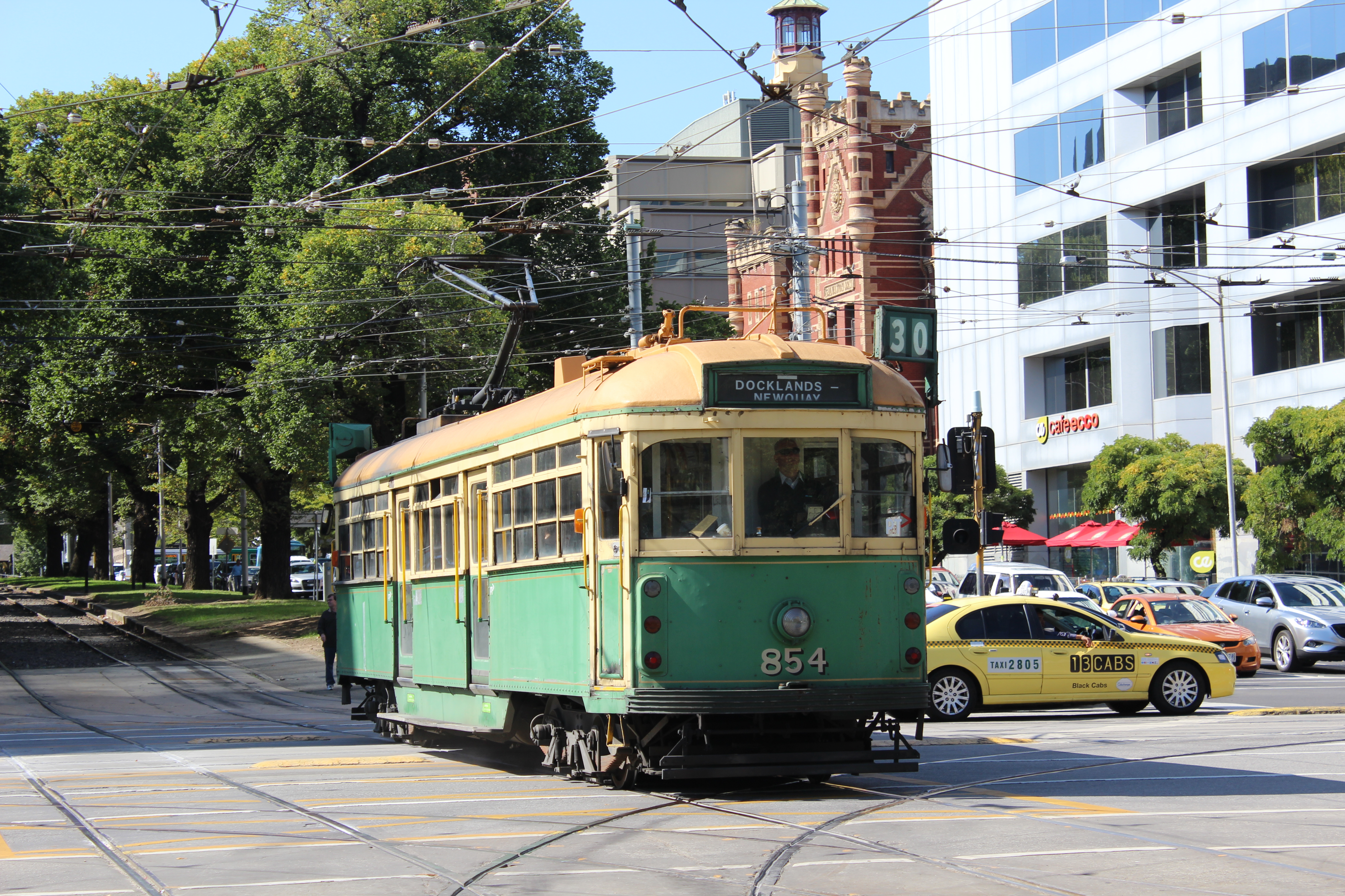 SW6 854 in Victoria Parade operating a route 30 service to Docklands, 2013.